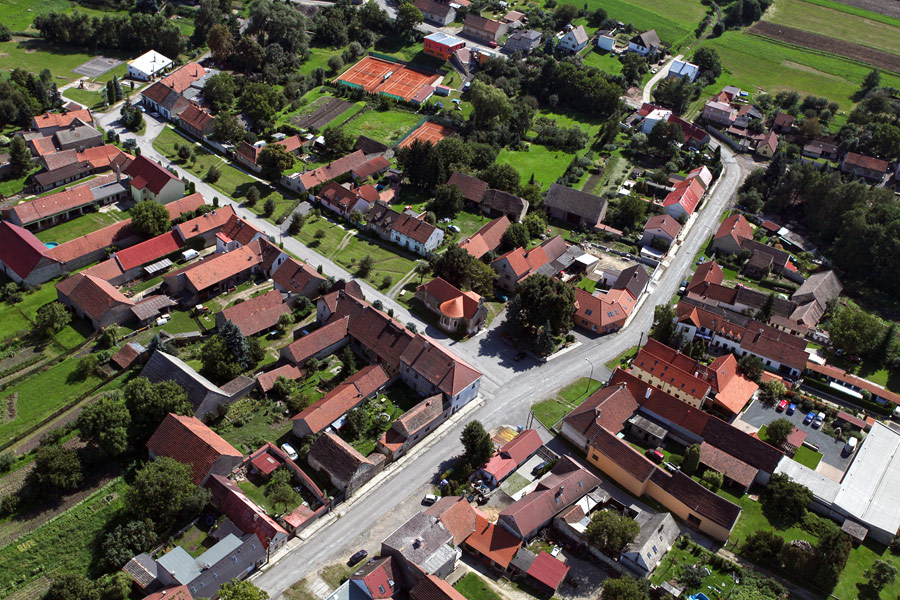 vilage Ledce (okres Kladno)